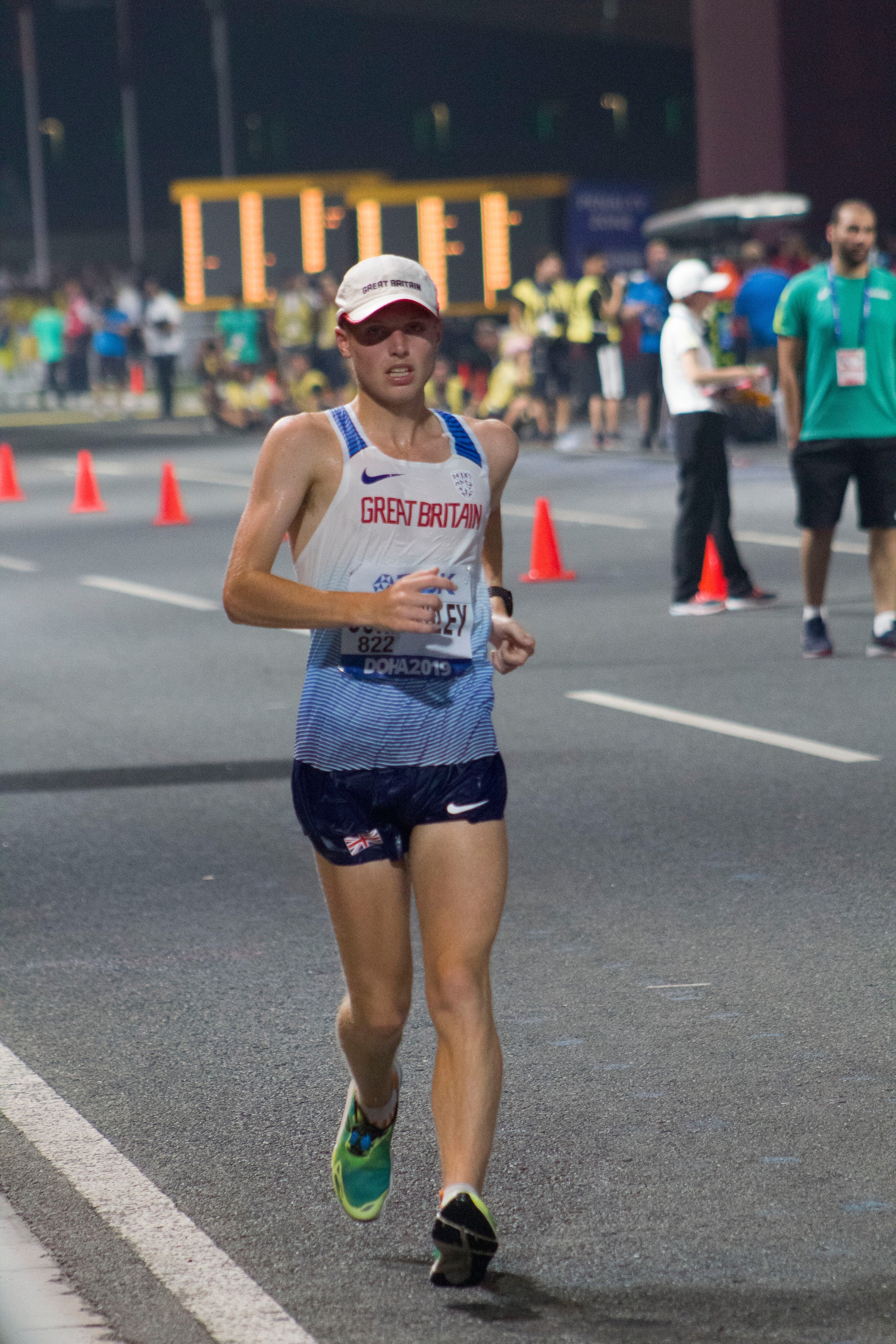 Race walker Cam Corbishley competing in the men's 50km race walk at the 2019 World Athletics Championships in Doha, Qatar.